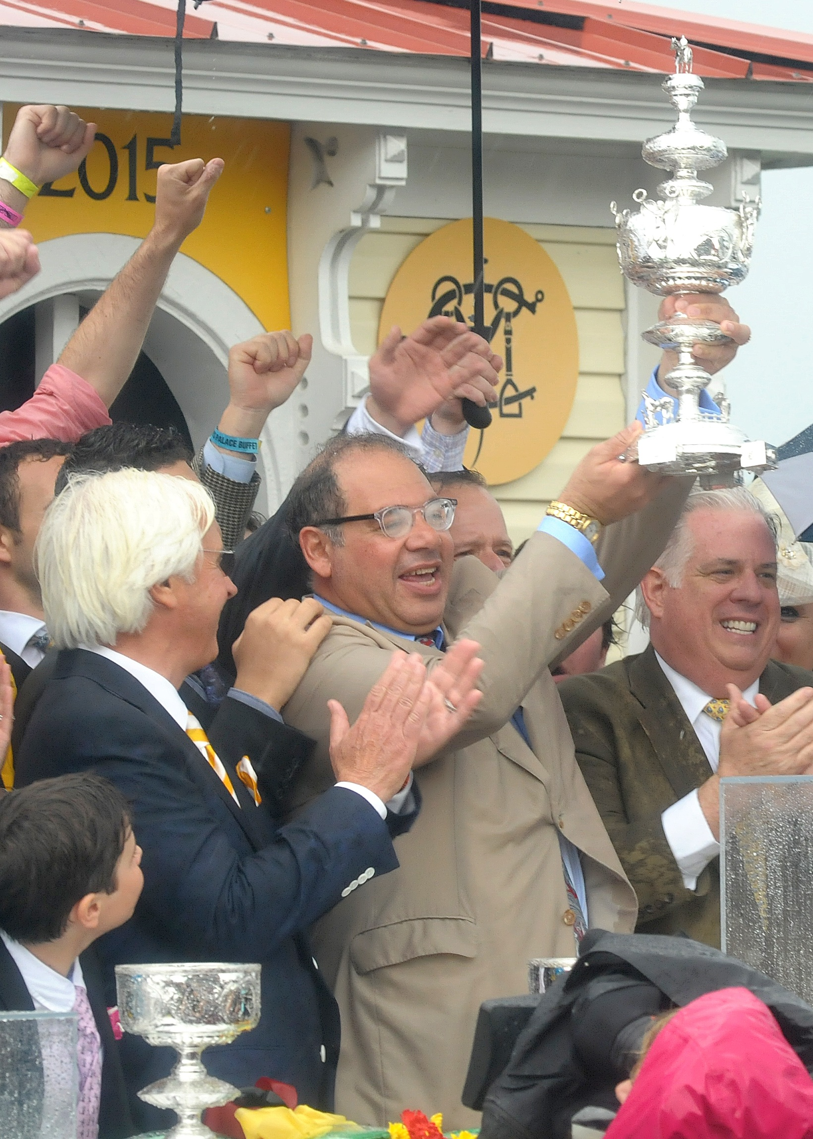 Ahmed Zayat, owner of American Pharoah, holding the Woodlawn Vase trophy at the 2015 Preakness Stakes. Crop of File:2015 Preakness Stakes (17842601576).jpg